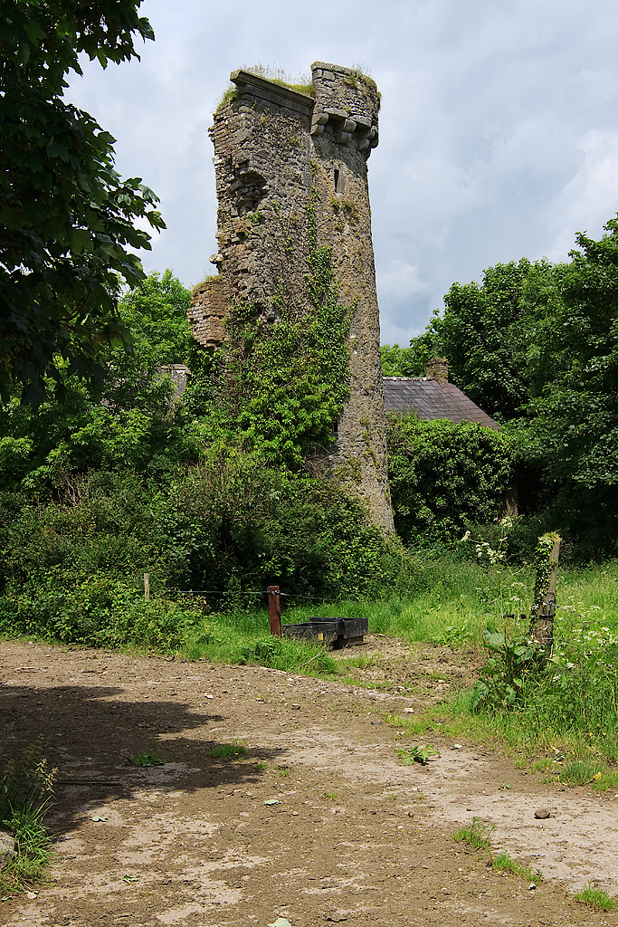 Castles of Munster: Castle Magner, Cork (1)